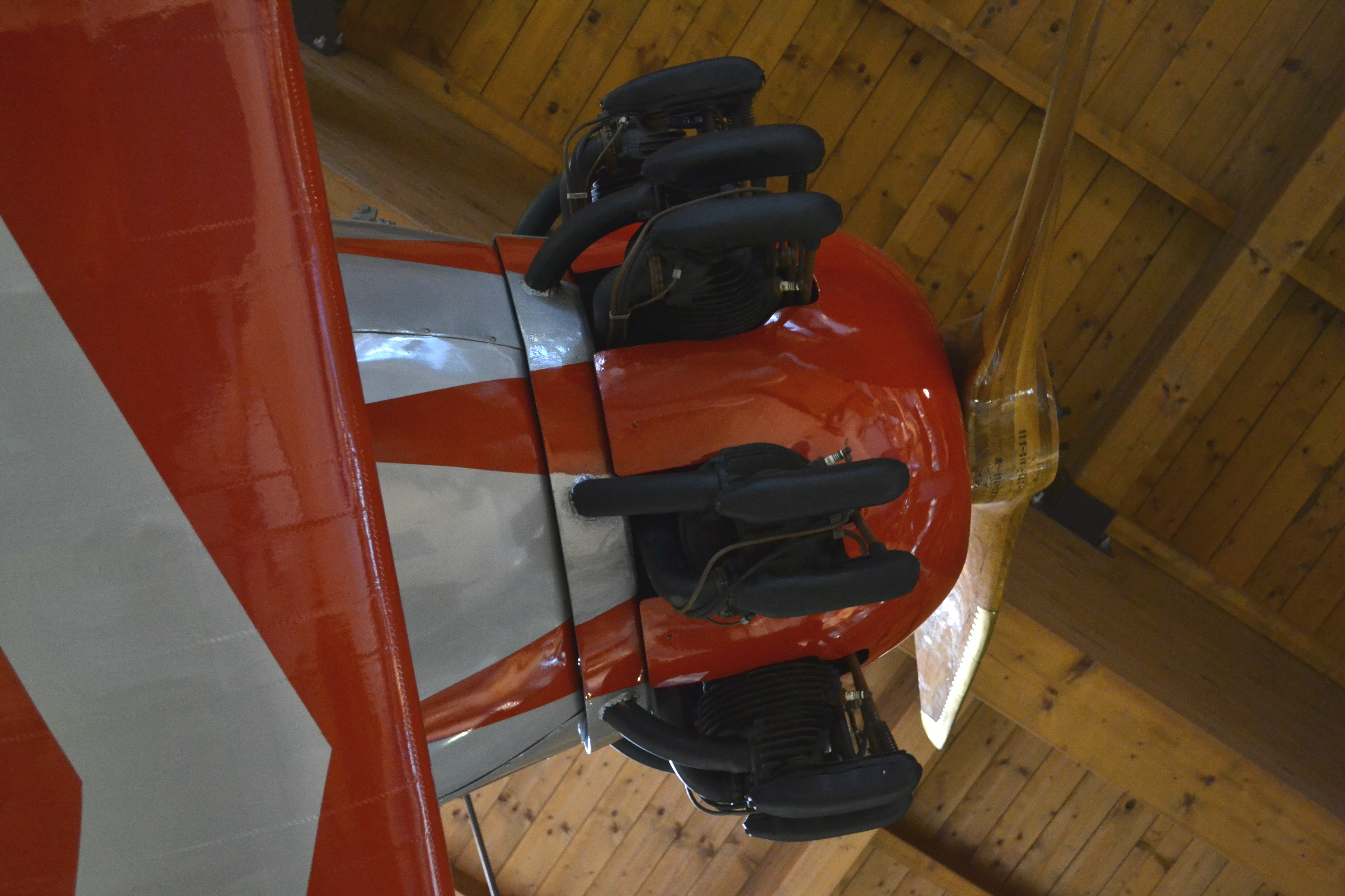 A detail of the Alfa Romeo Lynx engine of the Breda Ba.19 Italian aerobatic and training biplane from the 1930s. Original aircraft on display at the Gianni Caproni Museum of Aeronautics in Trento, Italy.